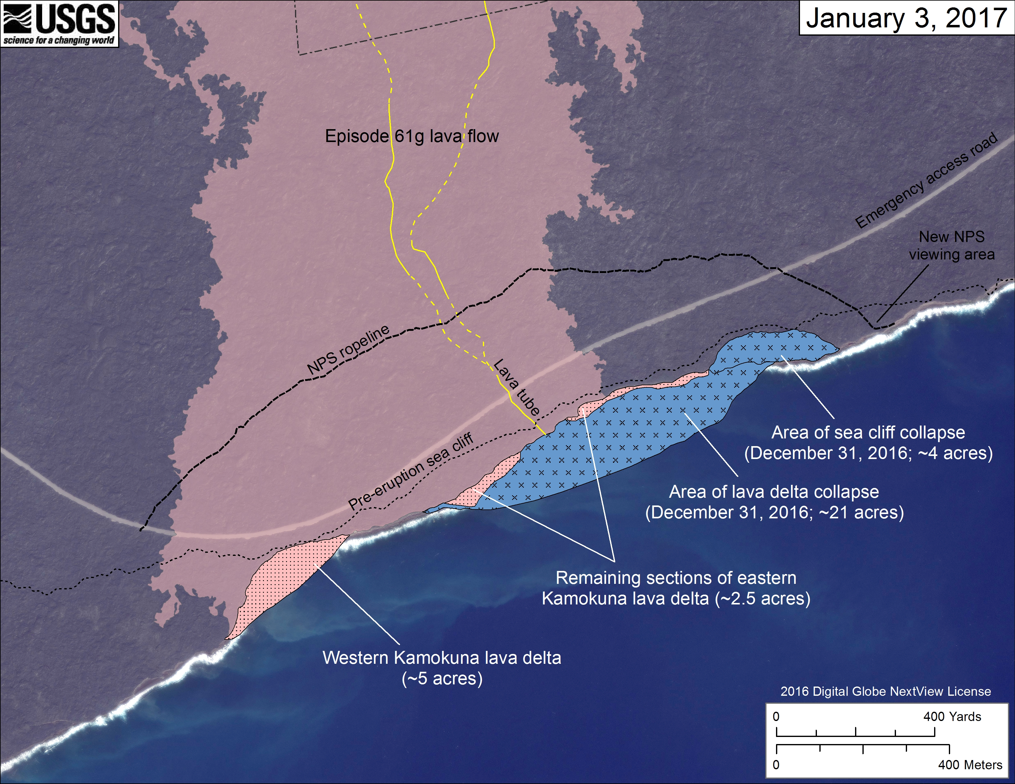 Updated Kamokuna ocean entry map, January 3, 2017